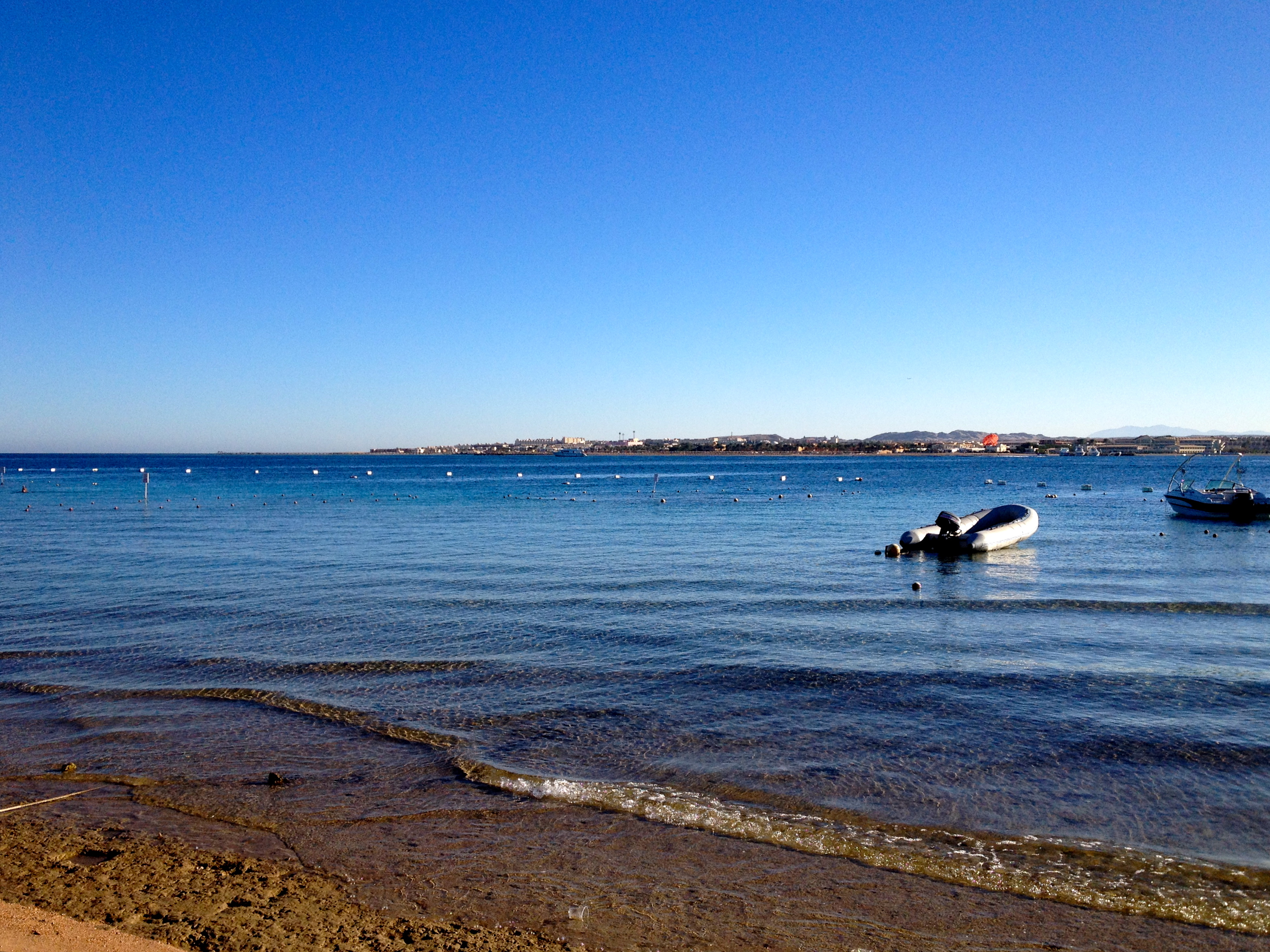 Makadi Bay, Egypt